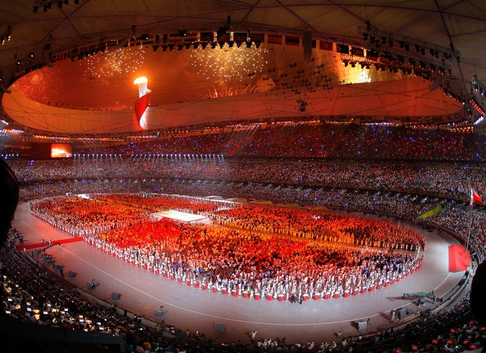 Beijing Olympics 2008 Opening Ceremony